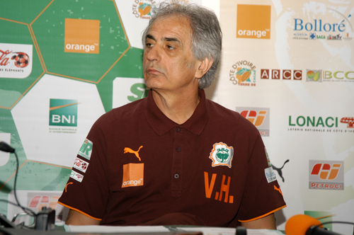 Vahid Halilhodžić, association football national coach of Cote d'Ivoire